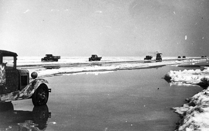 In the spring on the "Road of Life" on Lake Ladoga